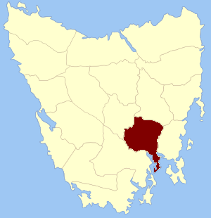 Location of the land district (formerly county) within Tasmania.